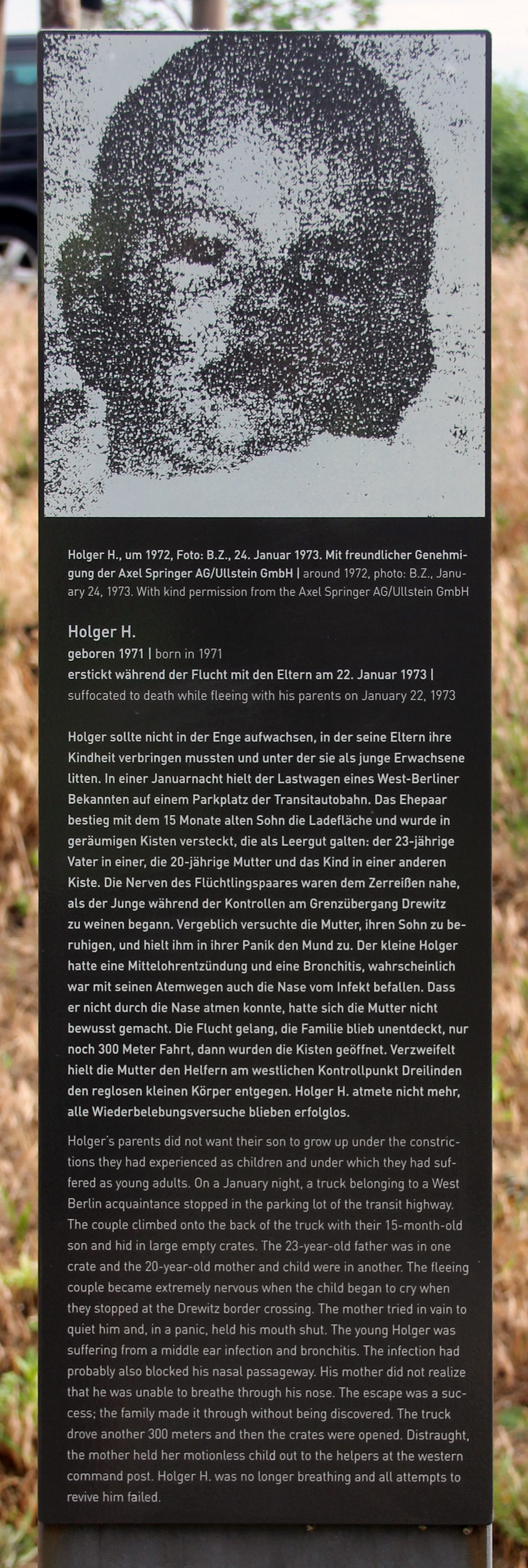 Memorial plaque, Holger H., Stahnsdorfer Damm, Kleinmachnow, Germany